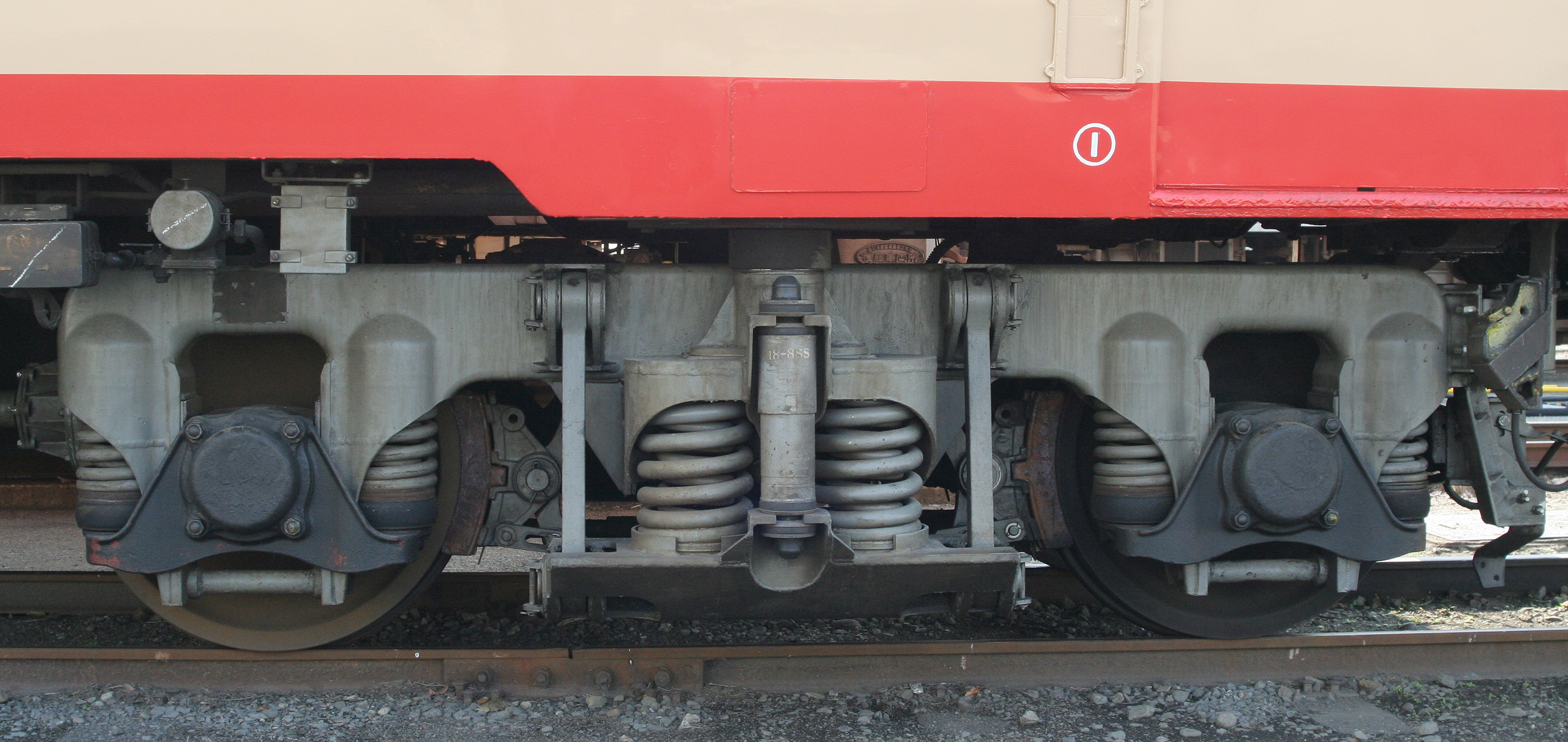 West Japan Railway Company kiha28-2329 DT22C